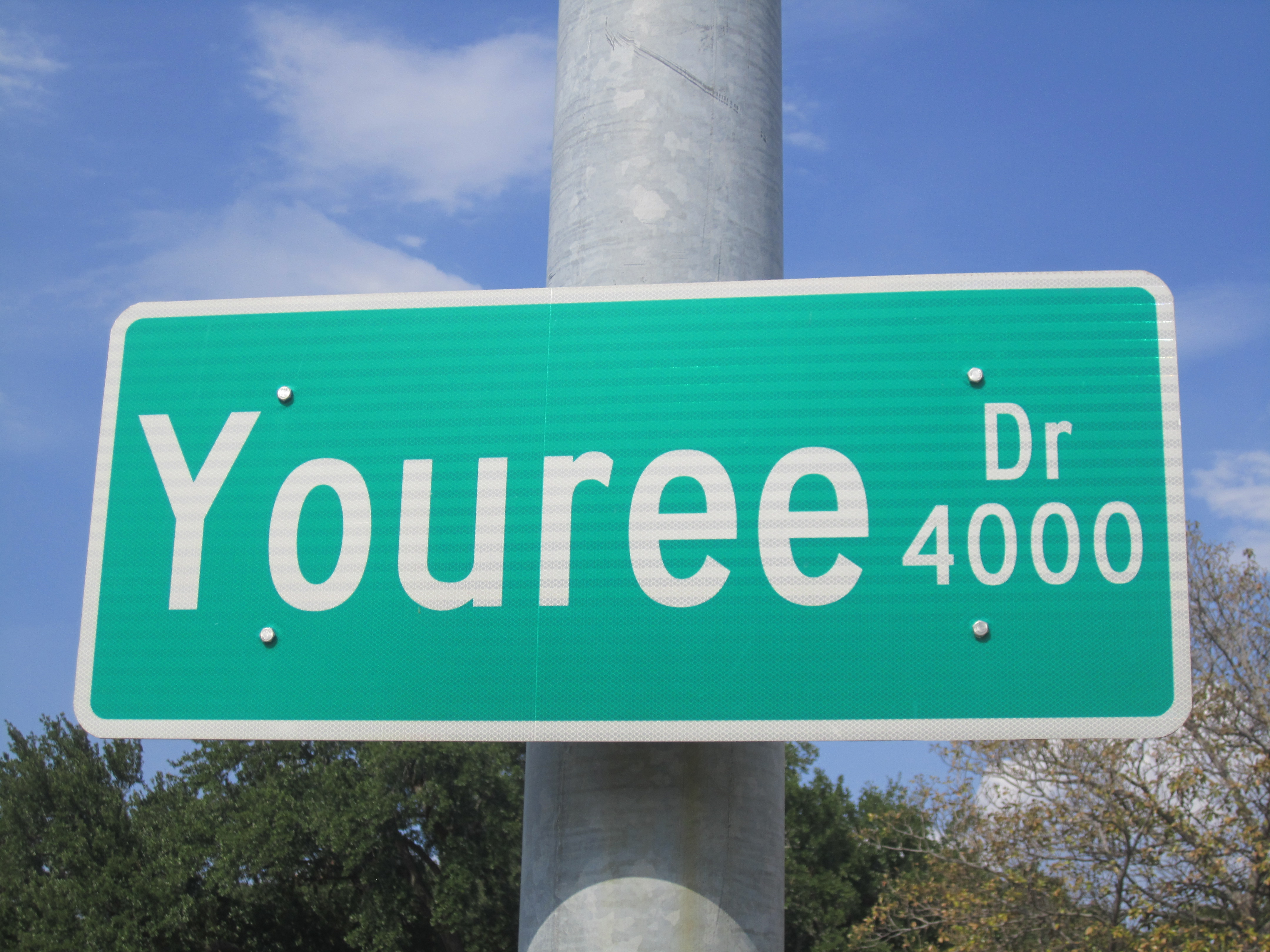 I took photo of Youree Drive sign, named for Peter Youree, with Canon camera in Shreveport, Louisiana.